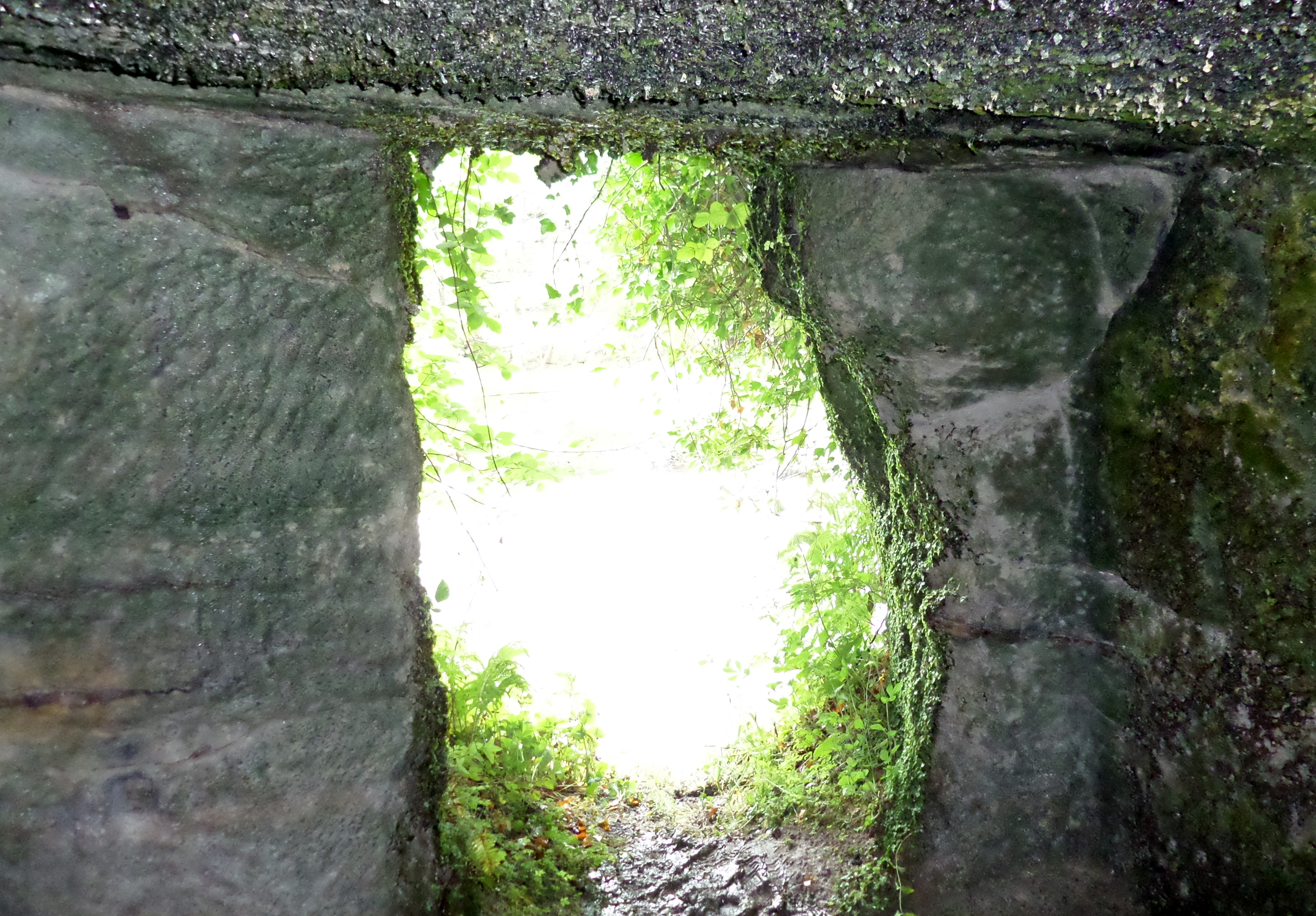 William Murdoch's Cave interior view of door, Bello Mill, Lugar, East Ayrshire, Scotland.